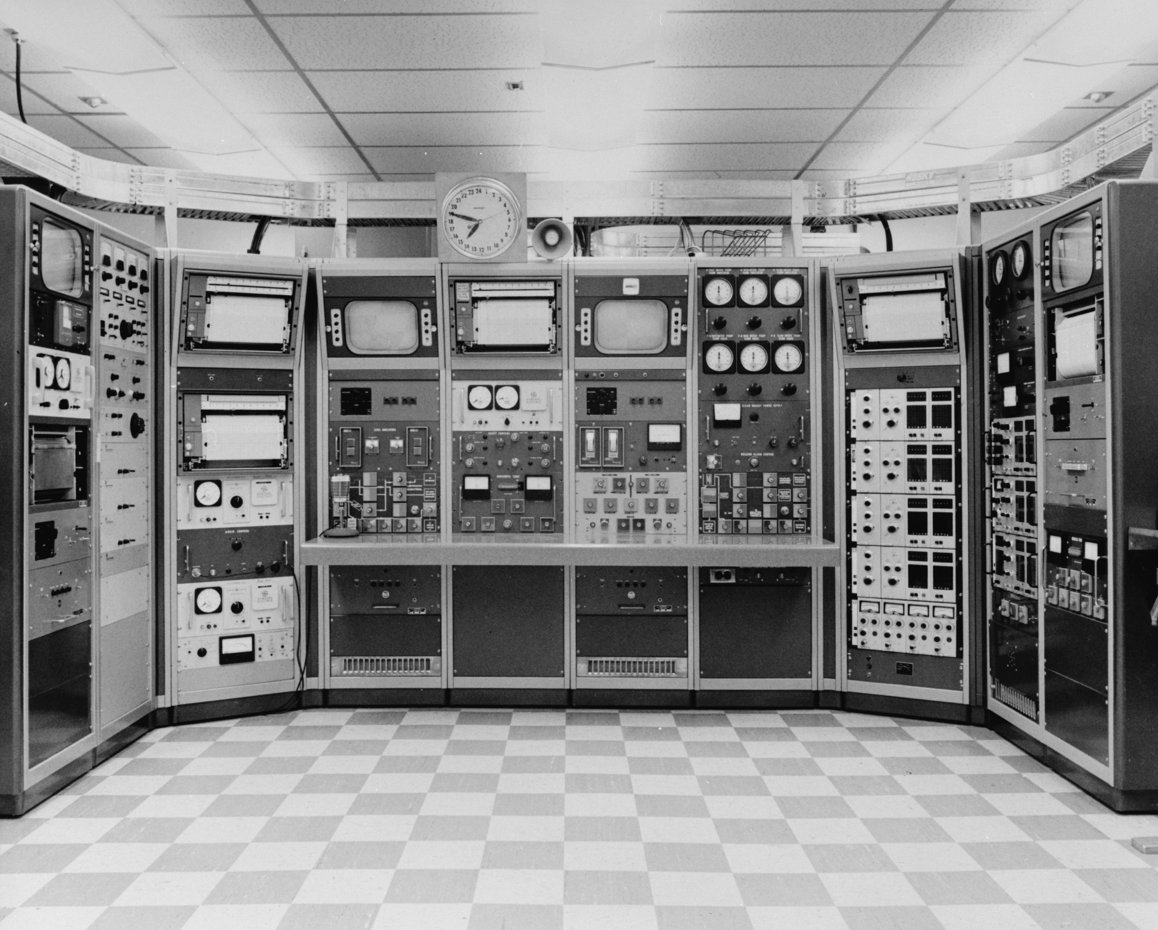 Rocky Flats Plant, Critical Mass Laboratory, Bounded by Indiana Street & Routes 93, 128 & 72, Golden vicinity, Jefferson County, CO VIEW OF THE EXPERIMENT CONTROL PANEL IN 1970. THE NUCLEAR SAFETY GROUP CONDUCTED ABOUT 1,700 CRITICAL MASS EXPERIMENTS USING URANIUM AND PLUTONIUM IN SOLUTIONS (900 TESTS), COMPACTED POWDER (300), AND METALLIC FORMS (500). ALL 1,700 CRITICALITY ASSEMBLIES WERE CONTROLLED FROM THIS PANEL. HAER COLO,30-GOLD.V,1A-2 (cropped)